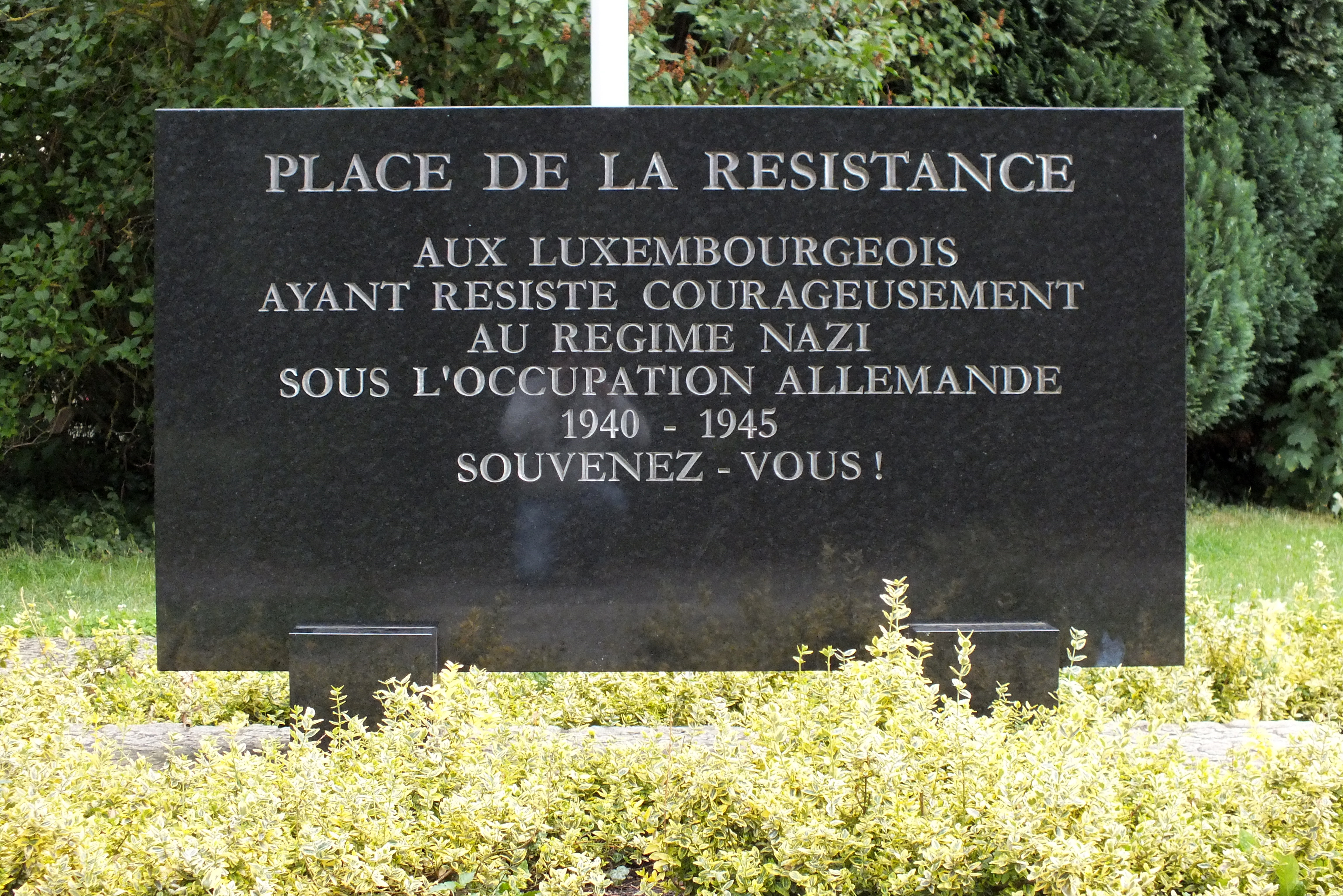 Place de la Résistance, 1940-1945, Dudelange